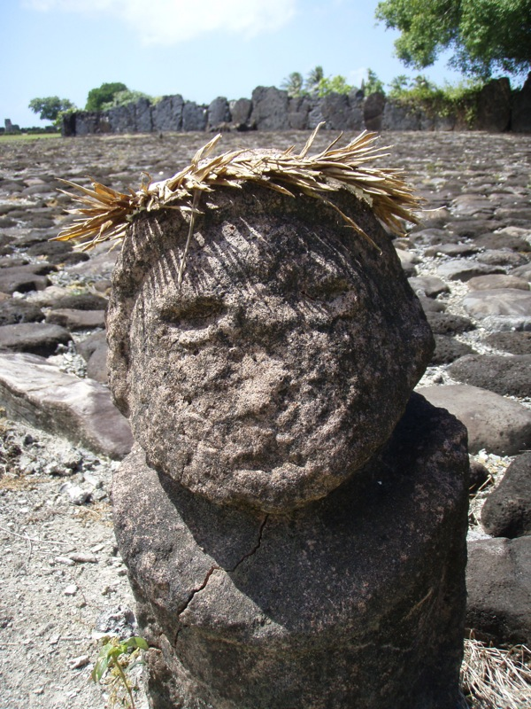 Close-up of an anthropomorphic statue on the ancient marae of Taputapuatea, Ra'iatea, French Polynesia.